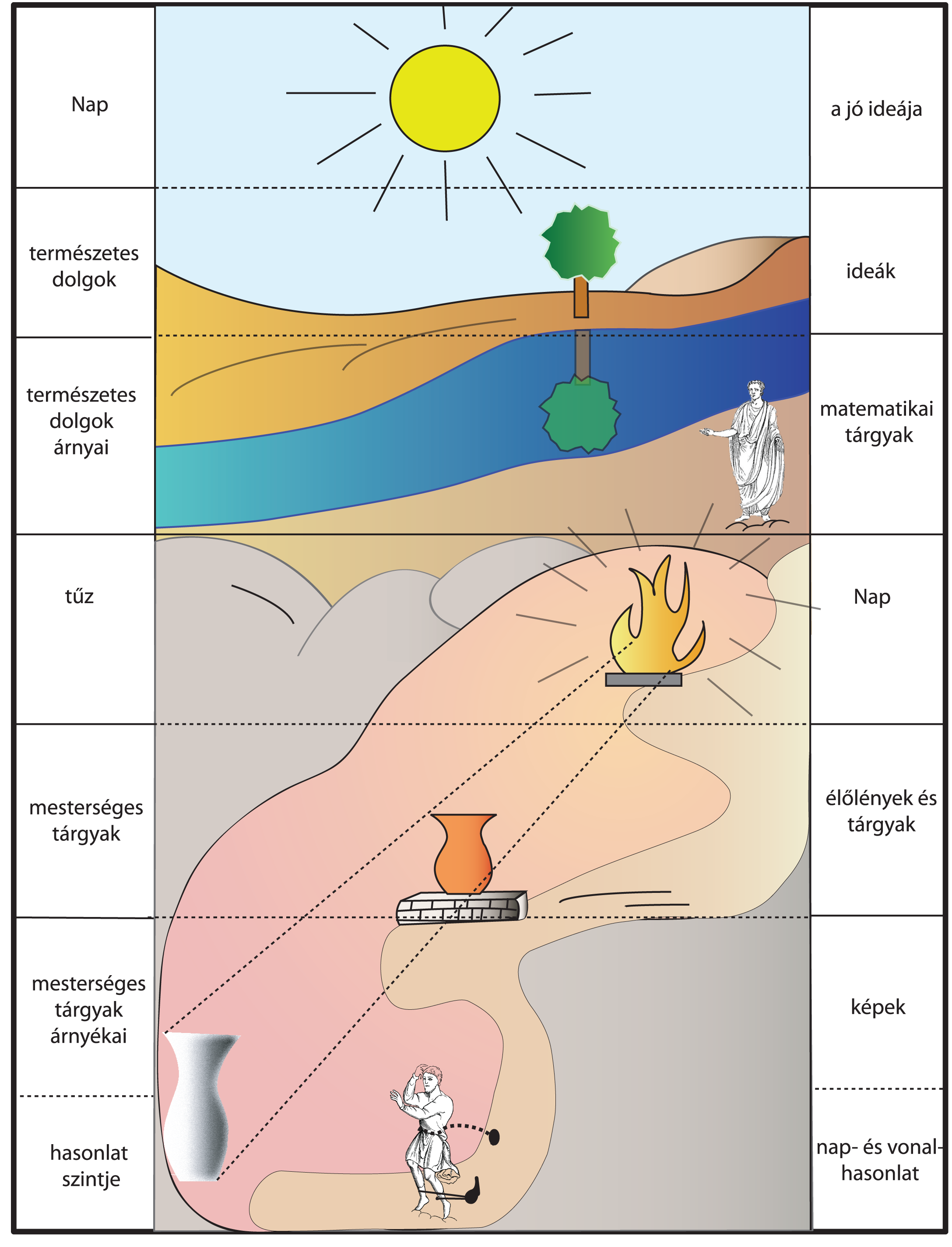 Allegory of the Cave (Plato); Left (From top to bottom): Sun; Natural things; Shadows of natural things; Fire; Artificial objects; Shadows of artificial objects. Analogy level: Right (From top to bottom): "Good" idea, Ideas, Mathematical objects, Light, Creatures and Objects, Image, Metaphor of the sun and Analogy of the divided line